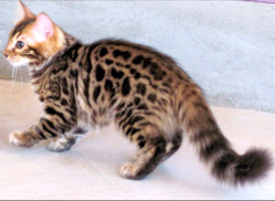 Cashmere